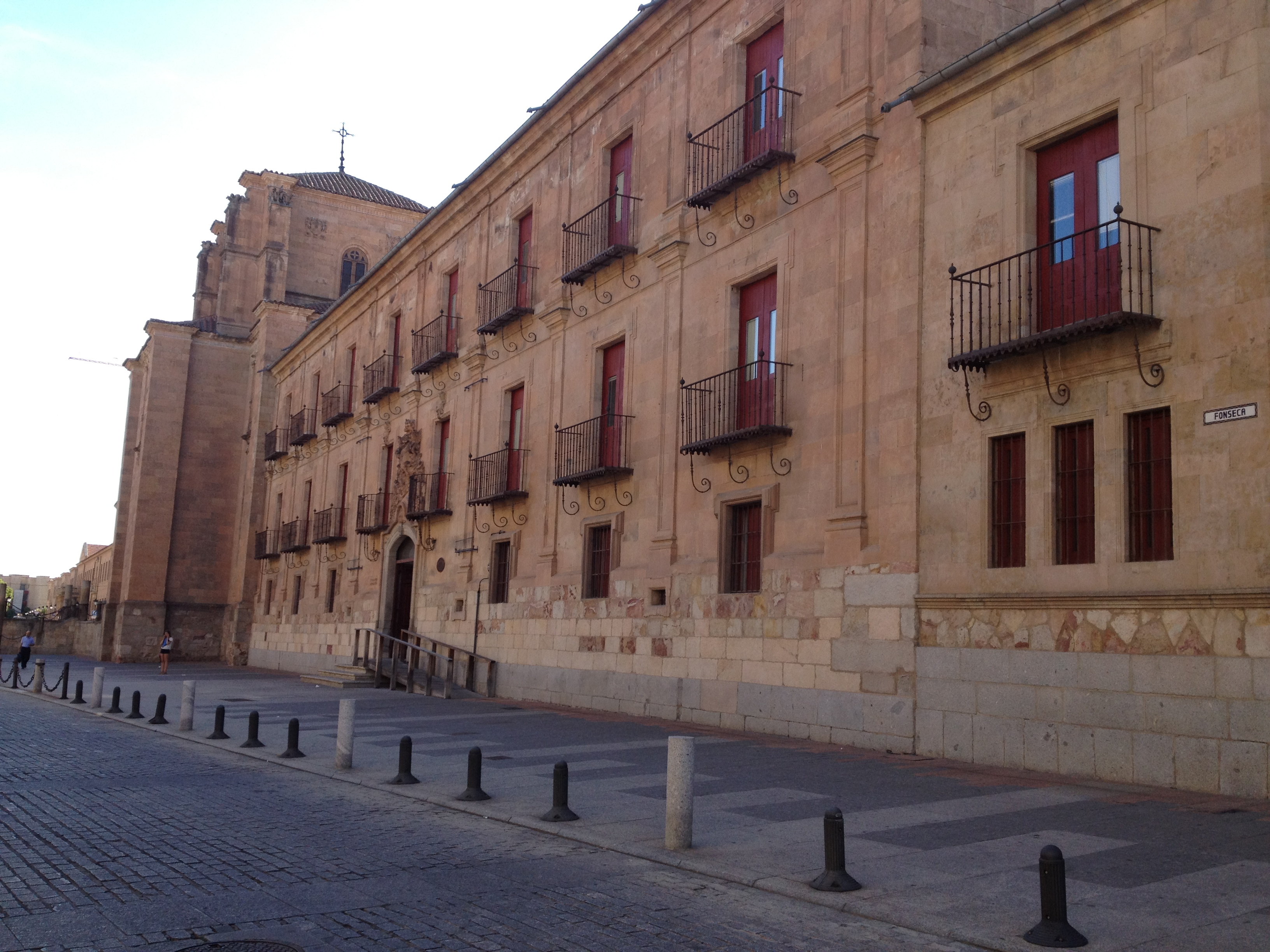 Fonseca College, University of Salamanca (Spain)